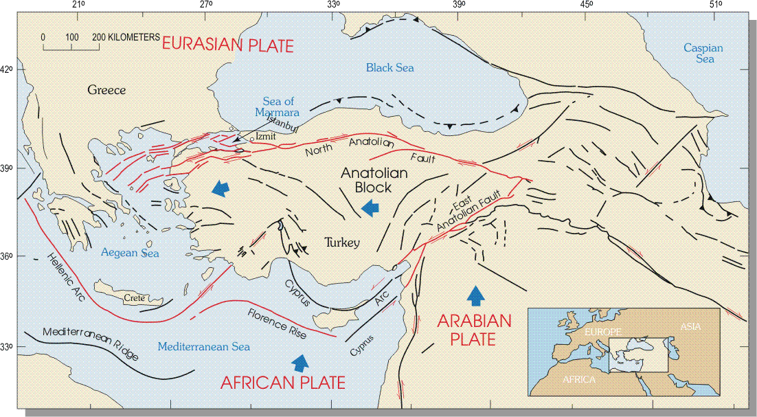 The tectonic map of Turkey, including “the North Anatolian fault, East Anatolian fault, and Hellenic and Florence trenches. The westward movement of the Anatolian block results from (1) differences in rates of motion between the Arabian and African plates, (2) different directions of motion between the Anatolian block and Eurasian plate to the north, and (3) subduction of the African plate beneath the Anatolian block at the Hellenic and Florence trenches. The Arabian plate is moving to the north faster than the African plate, both relative to a stable Eurasian plate. The result is a westward moving wedge incorporating most of Turkey.”